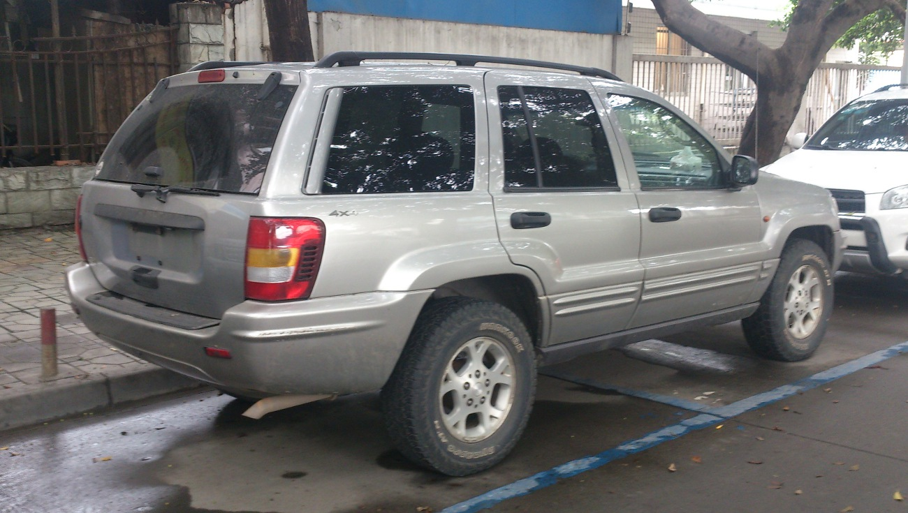 Jeep Grand Cherokee WJ photographed in Chengdu, Sichuan province, China.